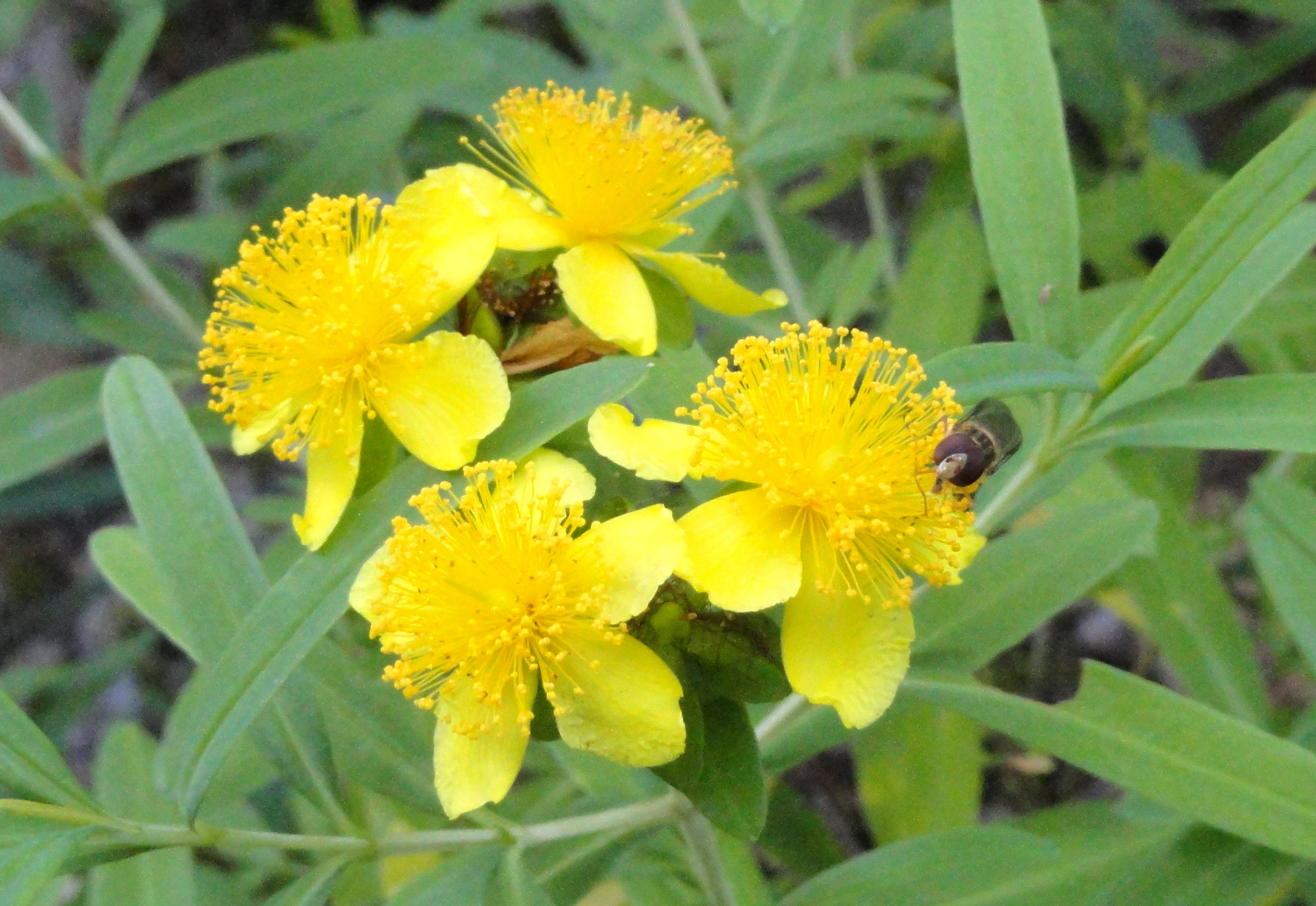 Botanical specimen in the Botanischer Garten, Frankfurt am Main, located at Siesmayerstraße 72, Frankfurt am Main, Germany.